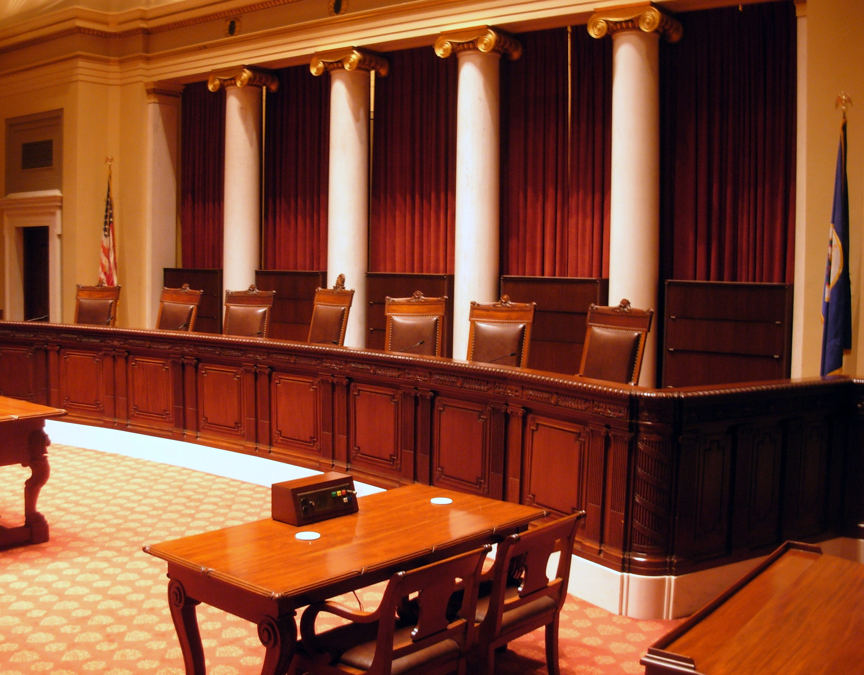 Minnesota State Capitol Supreme Court Chamber seen from the side